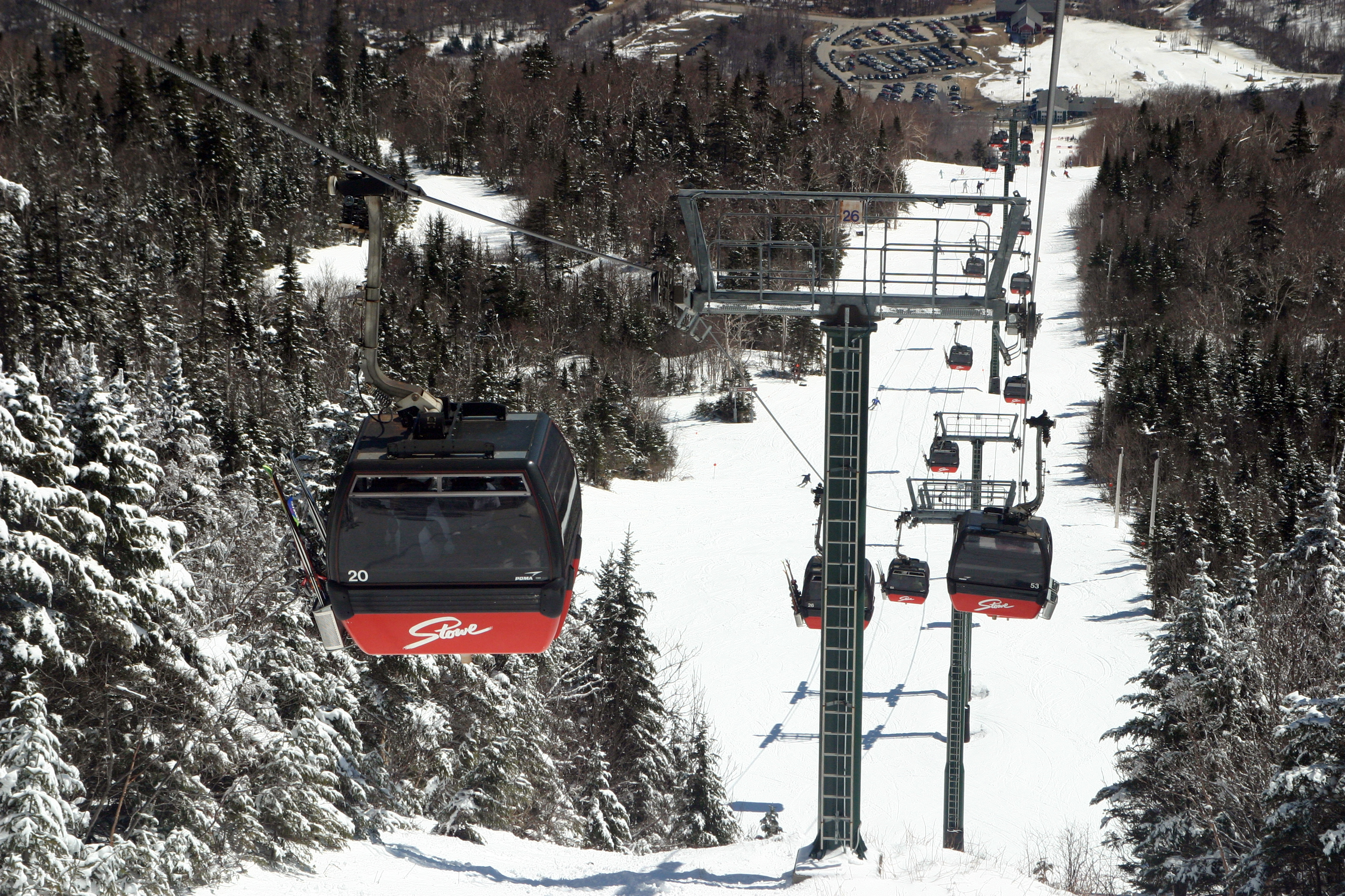 Photograph of a Gondola lift at Stowe, Vermont